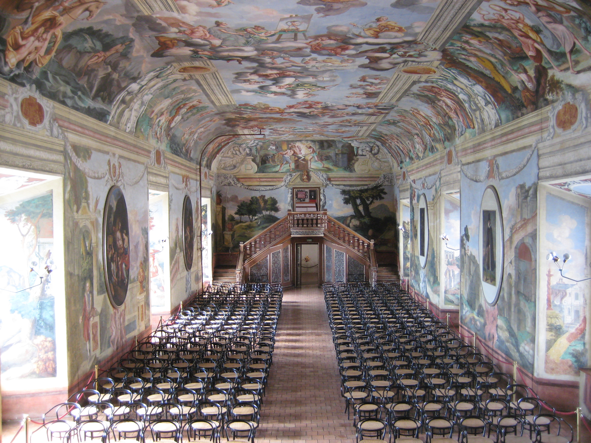 Brežice castle, Slovenia